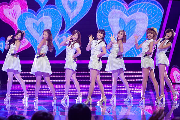 Apink at Mnet 'M Countdown' Smile Thailand Southeast Asia on September 28th, 2012. Left to right: Naeun, Bomi, Chorong, Eunji, Yookyung, Namjoo and Hayoung.